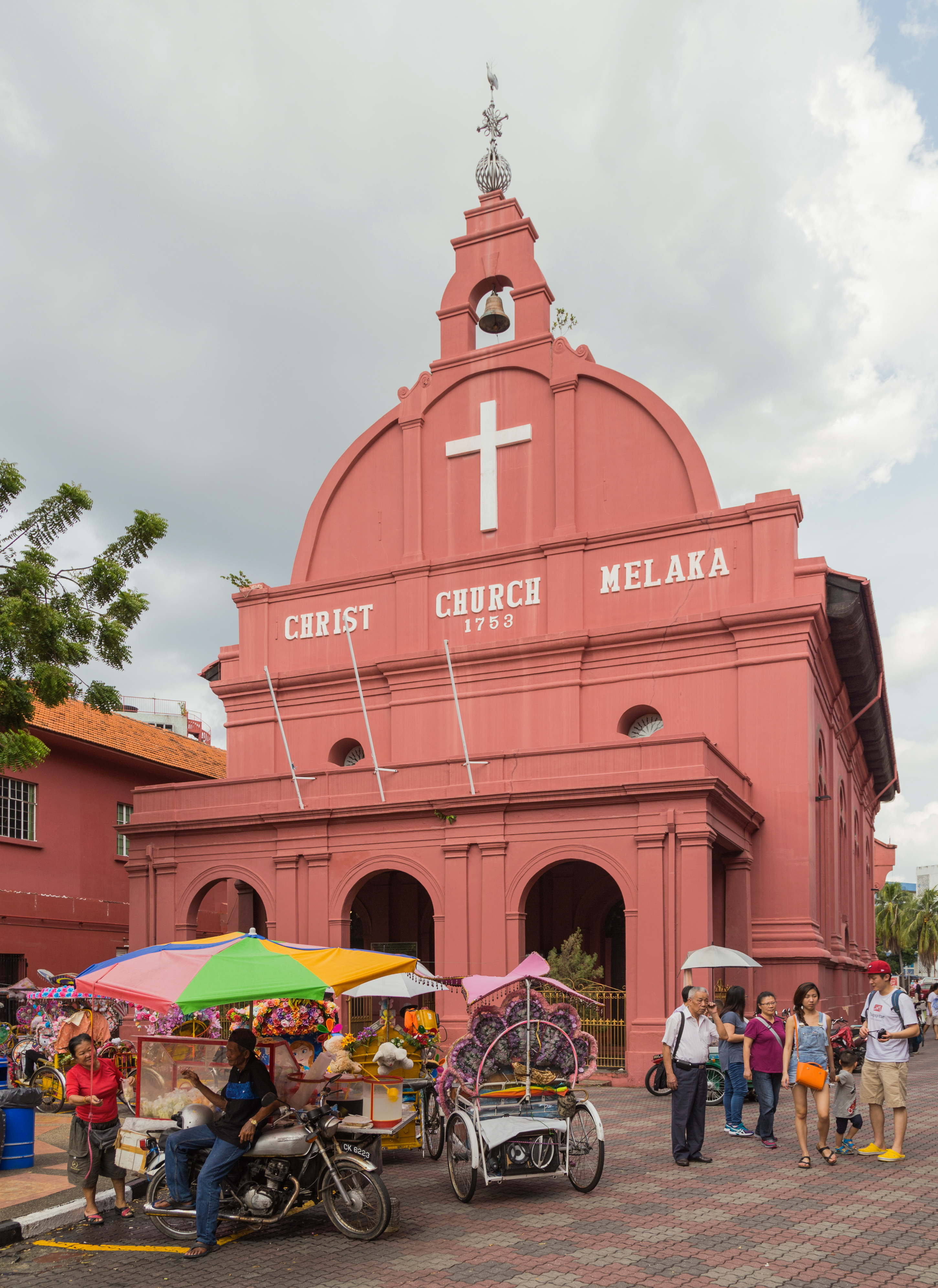 Christ Church. Malacca City, Malacca, Malaysia.